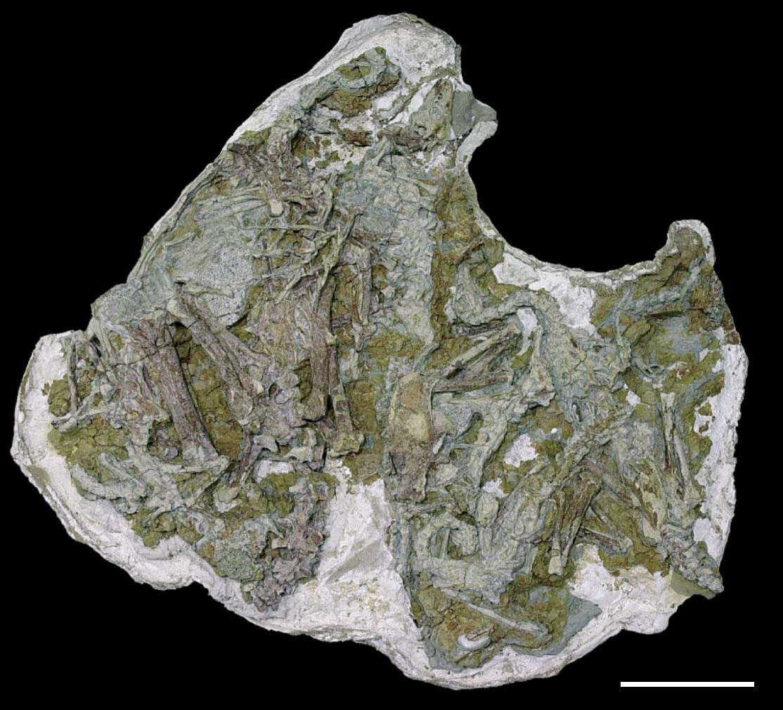 Largest block, containing eight complete and partial skeletons of Sinornithomimus dongi gen. et sp. nov., recovered from the Ulan Suhai locality: photograph. Scale bars 30 cm.